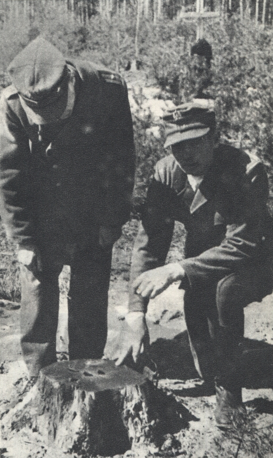 Investigation at the place of mass executions in Palmiry. First from the left: dr Stanisław Płoski – Chairman of the Commission for the Investigation of Nazi Crimes in Warsaw. Second form the left: Adam Herbański – Polish forester who secretly marked the mass graves in Palmiry during the period of German occupation.